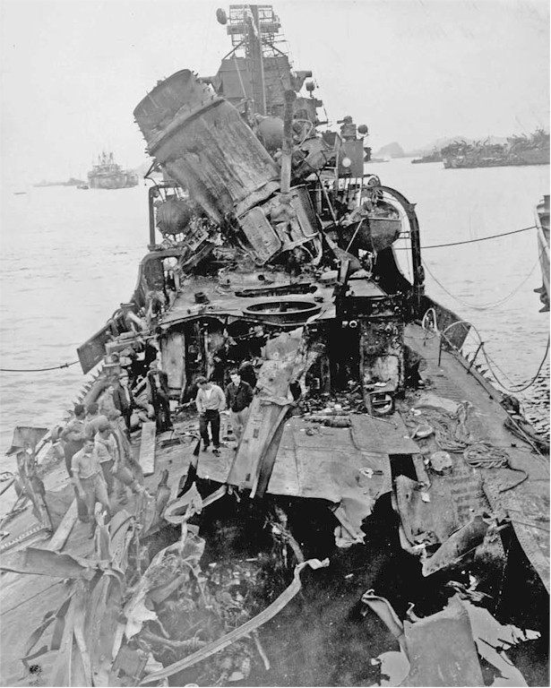 Damage to USS Newcomb (DD-586) caused by the impact of four kamikazes